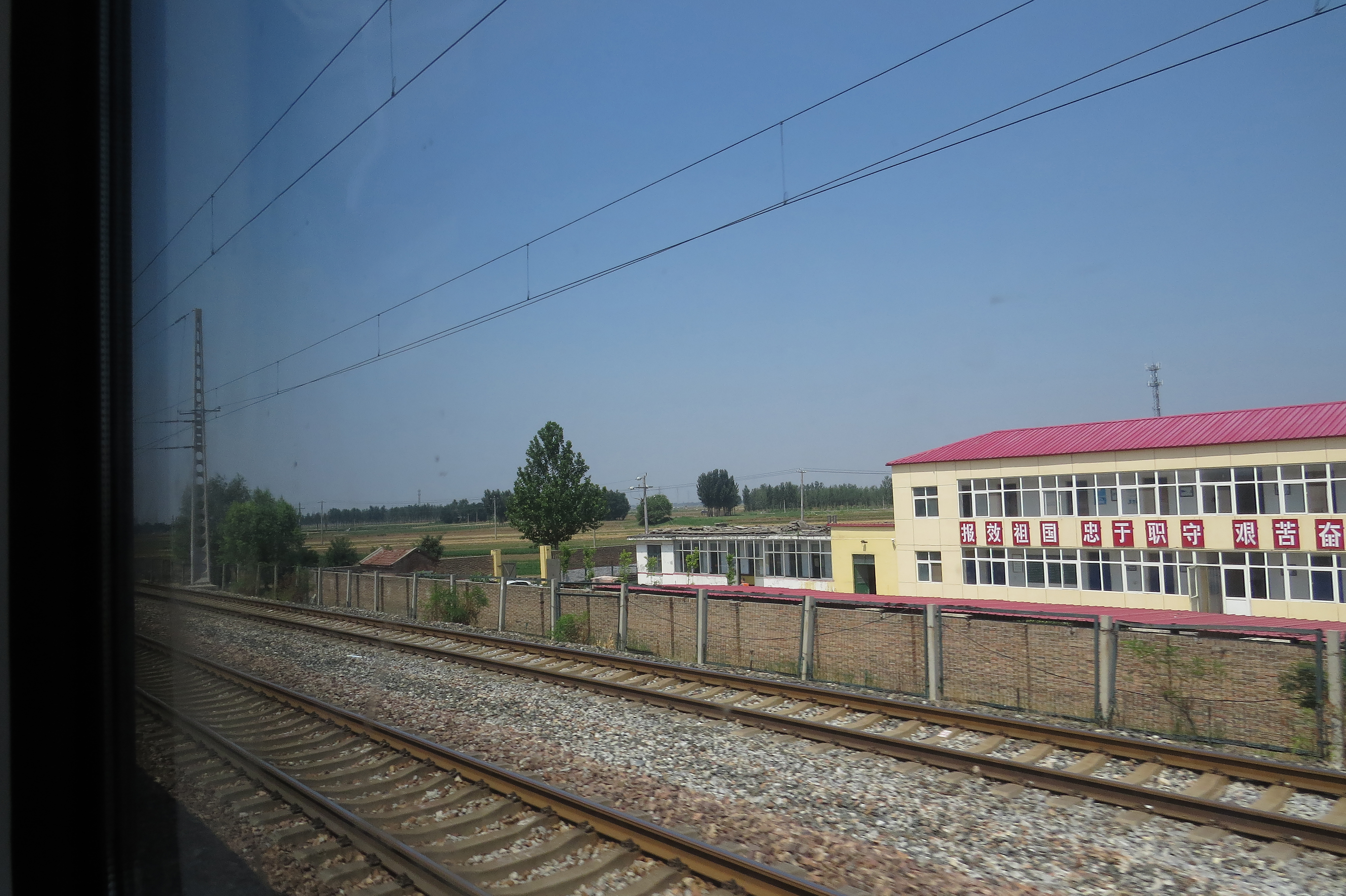 It has something to do with Shuozhou-Huanghua Railway.